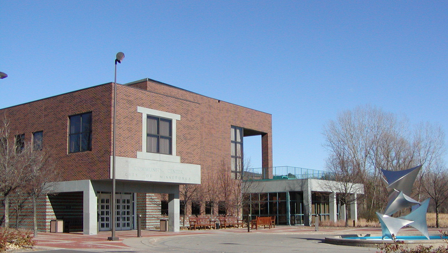 Minnetonka Community Center Taken by William Wesen